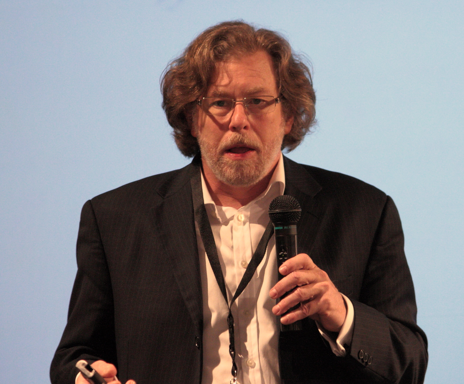 Eric Reiss during Polish IA Summit, 15 April 2010